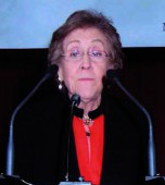 Professor Carmina Virgili or Carmina Virgili i Rodon (19 June 1927 – 21 November 2014) was a Spanish Professor, politician and geologist